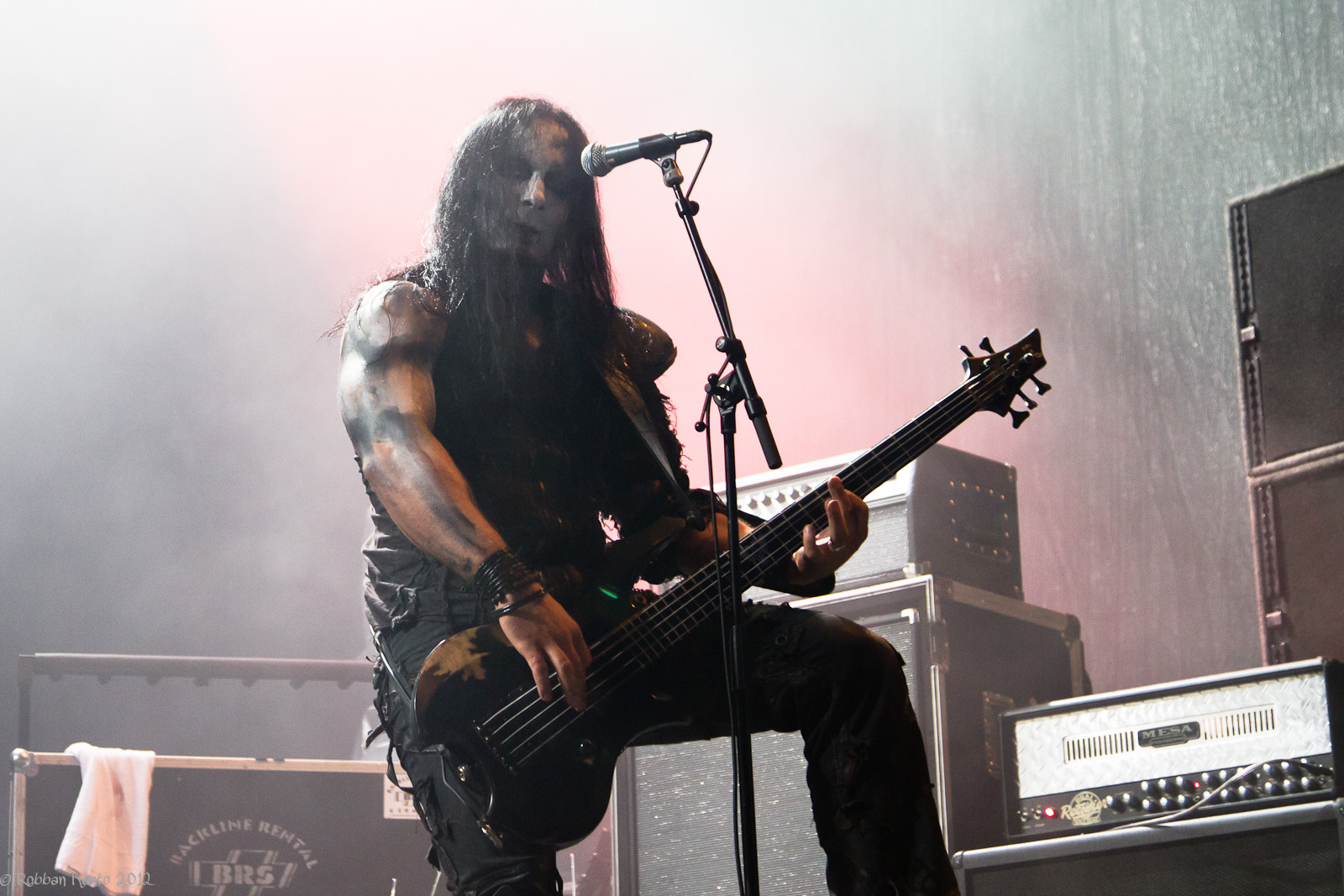 Live at Getaway Rock Festival 2012